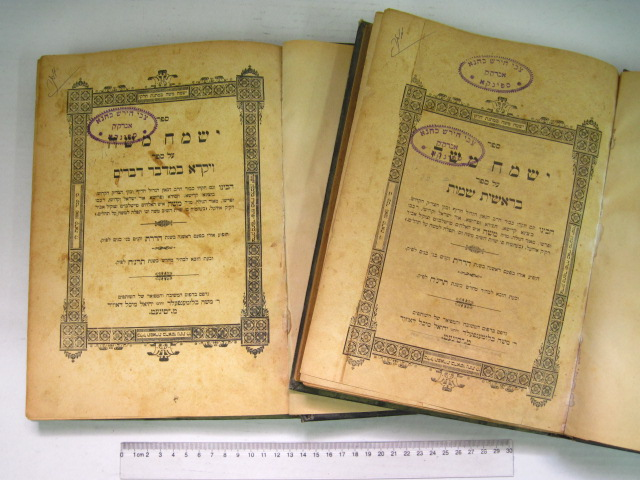 Moshe Teitelbaum: Yismach Moshe (Moses Rejoiced), 1898 edition.